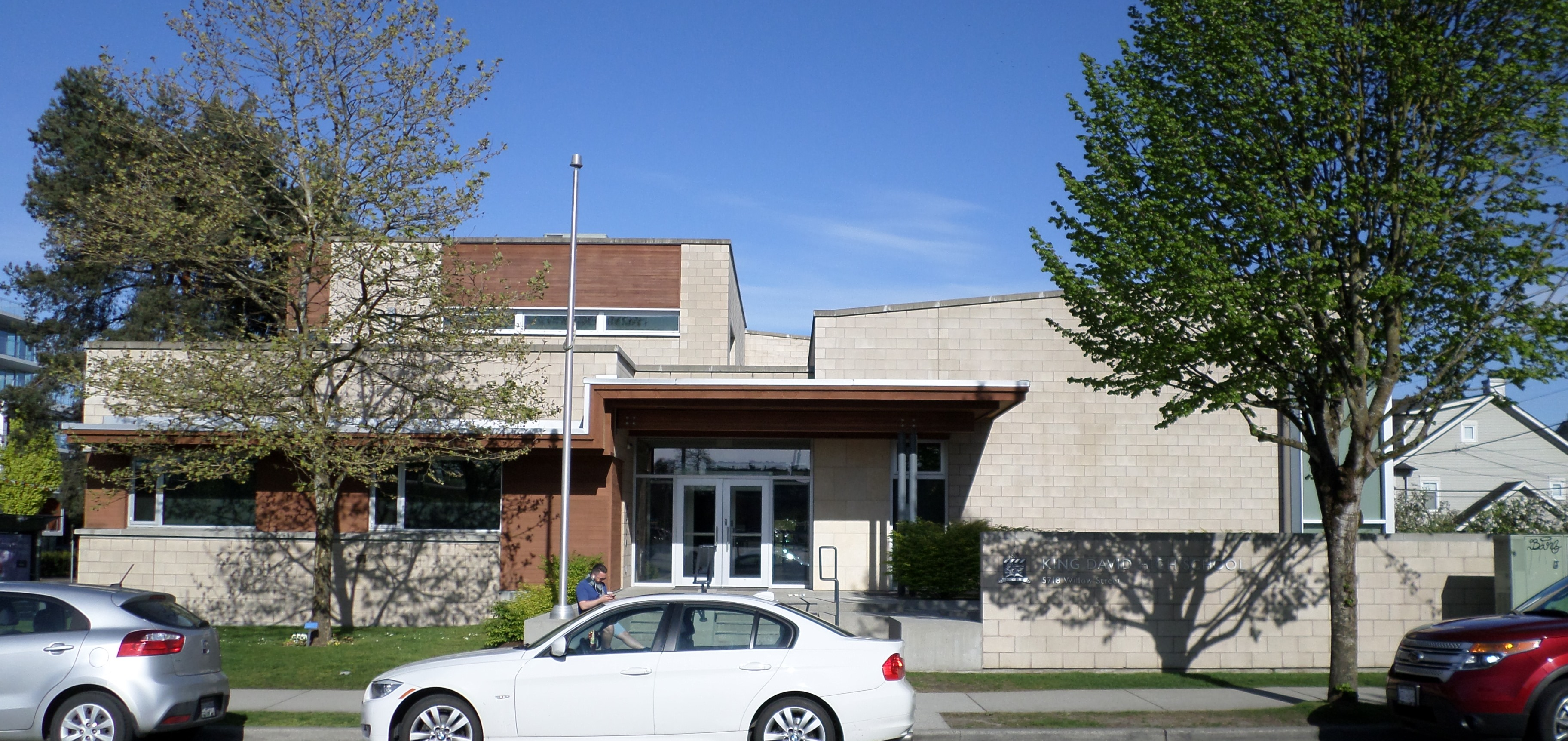 King David High School, located at 5718 Willow St, Vancouver, BC.